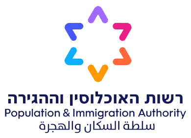 LOGO OF POPULTION & IMMIGRATION AUTHORITY